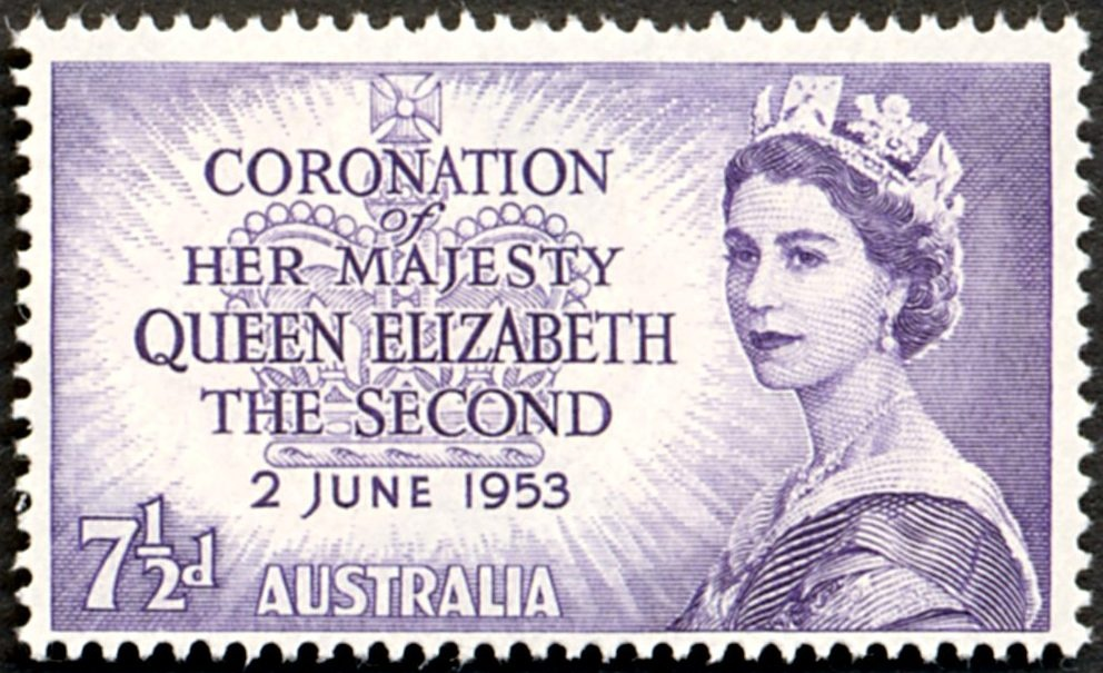 A postage stamp of Australia issued 1953